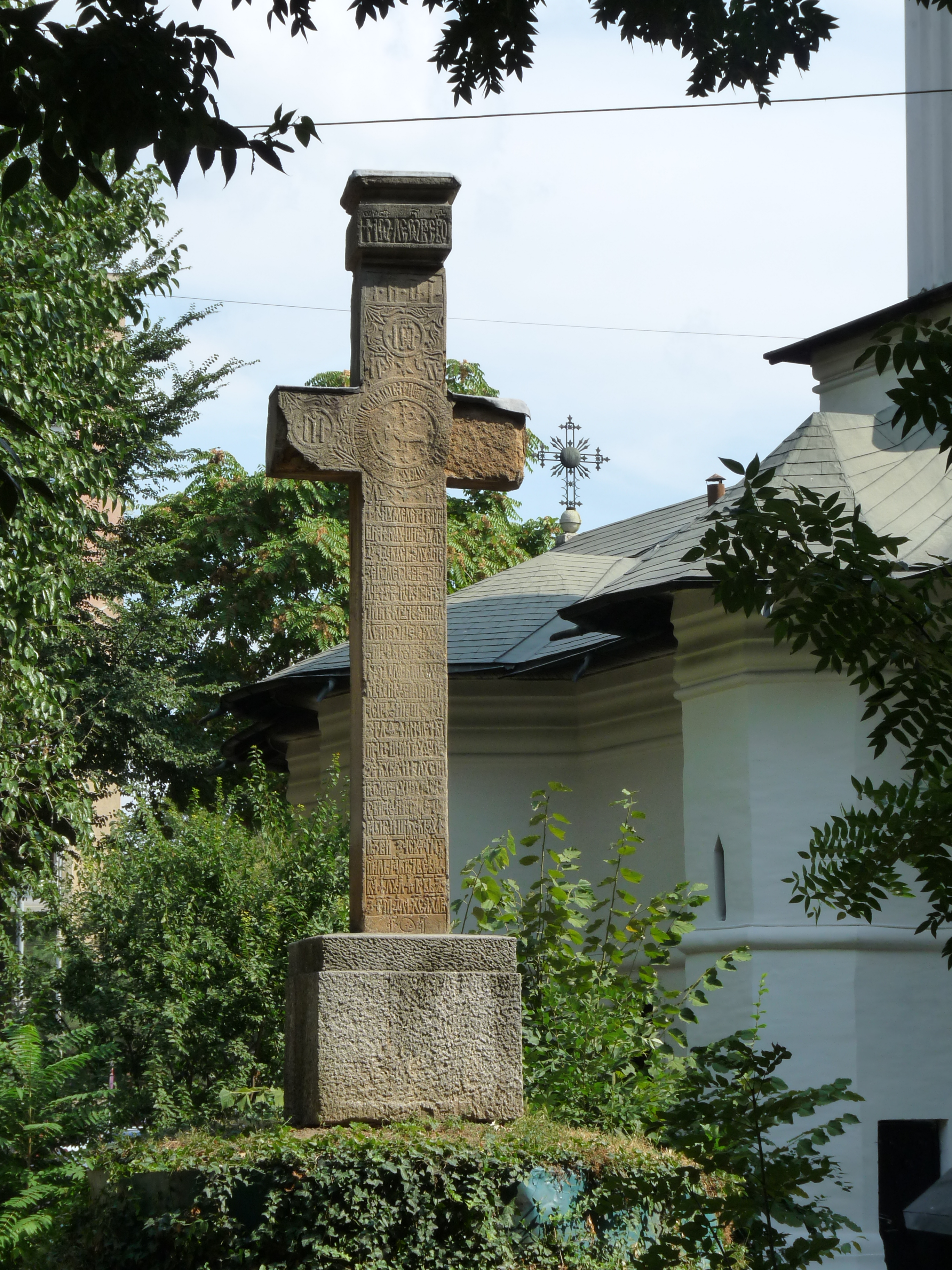 Leon Vodă's cross in the yard of St. Dimitrie (Slobozia) church in Bucharest, RomaniaRomână: Crucea lui Leon Vodă, in curtea bisericii Sf. Dimitrie (Slobozia) din Bucureşti, România